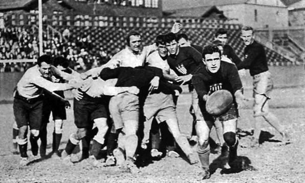 The first international US rugby national team ever, v. Australia in California: Scrum-half Laird Morris passes back after a scrum with Frank Gard and Chris Momson holding back the Australians.